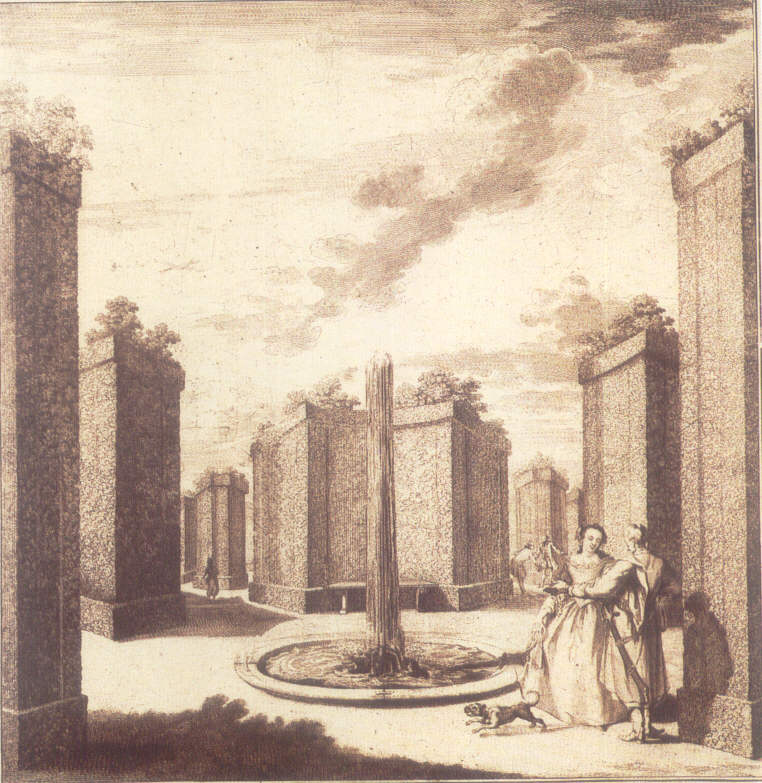 Bosque hedge maze, in the Baroque Gardens of Branicki Palace, in Białystok, northeastern Poland. 18th-century print by architect Pierre Ricaud de Tirregaille (French).